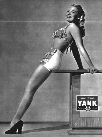 Pin-up photo of Jean Trent for the Mar. 30, 1945 issue of Yank, the Army Weekly, a weekly U.S. Army magazine fully staffed by enlisted men.